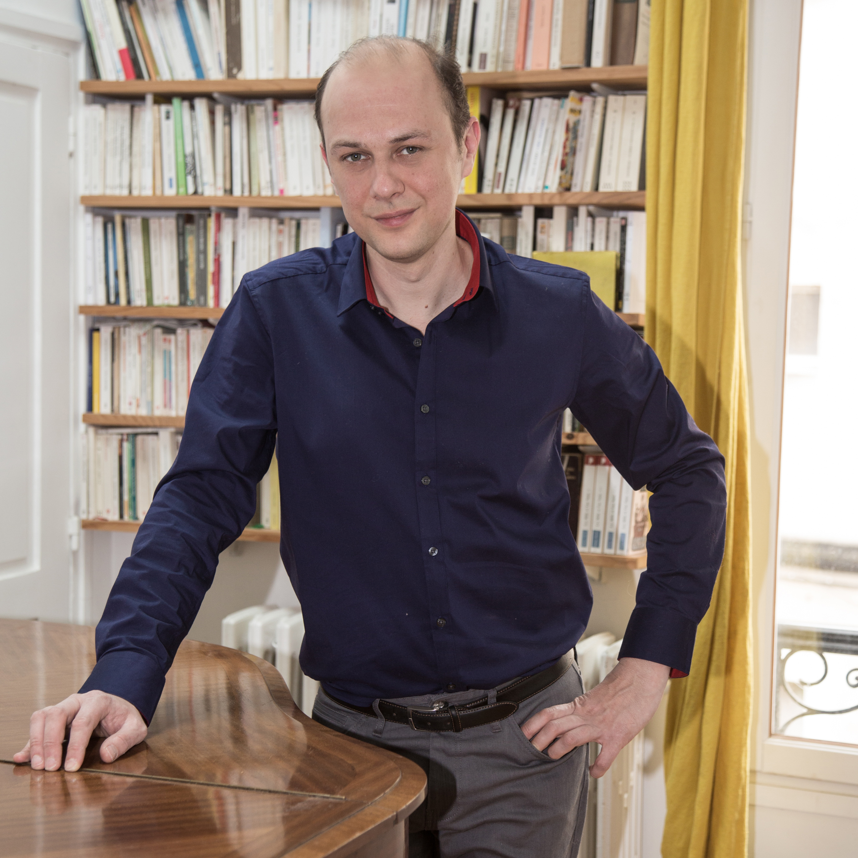 Portrait:Laurent Lefrançois Photographe:Marie-Sophie Leturcq